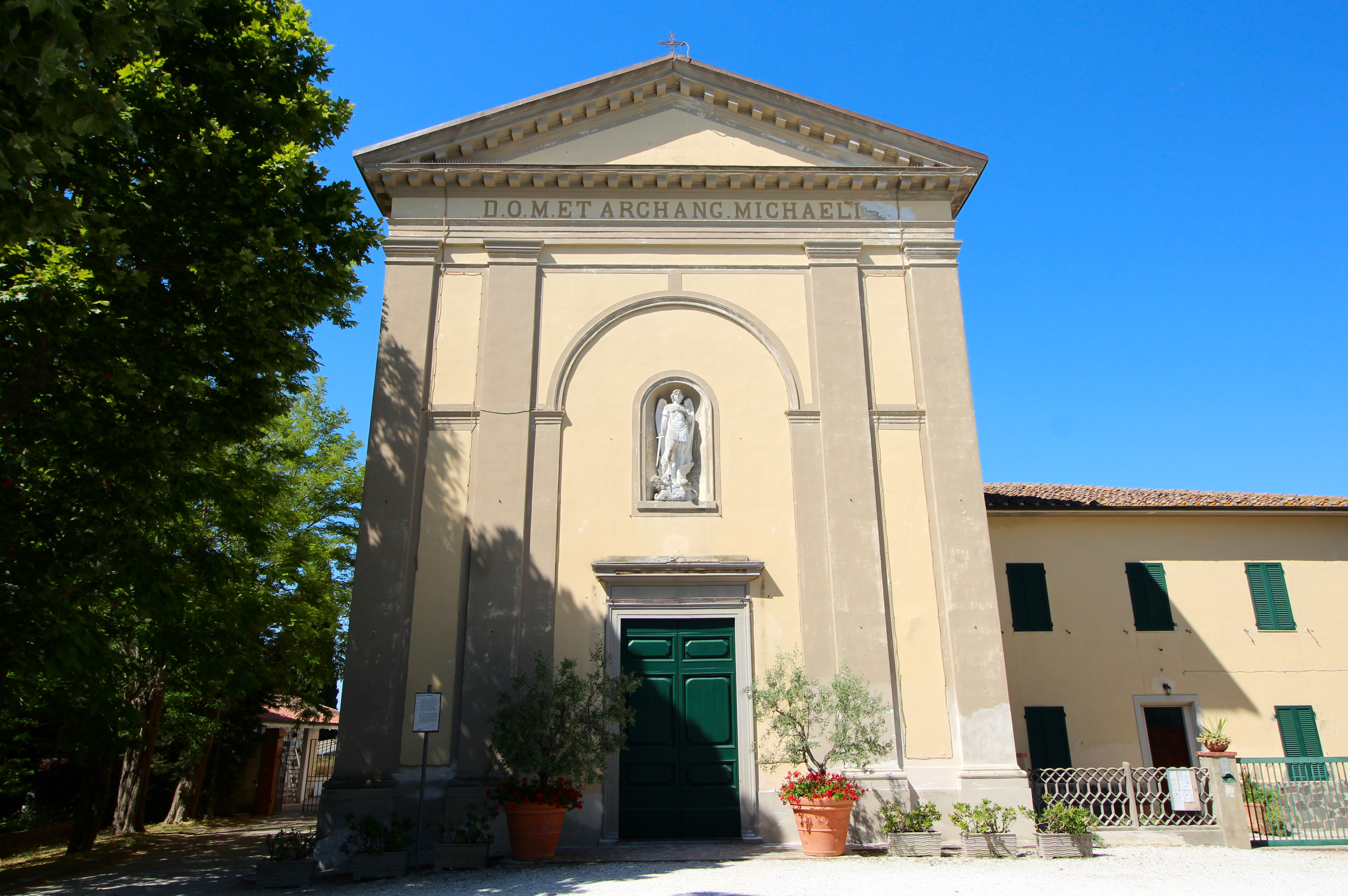 Church San Michele, Crespina, hamlet of Crespina Lorenzana, Province of Pisa, Tuscany, Italy